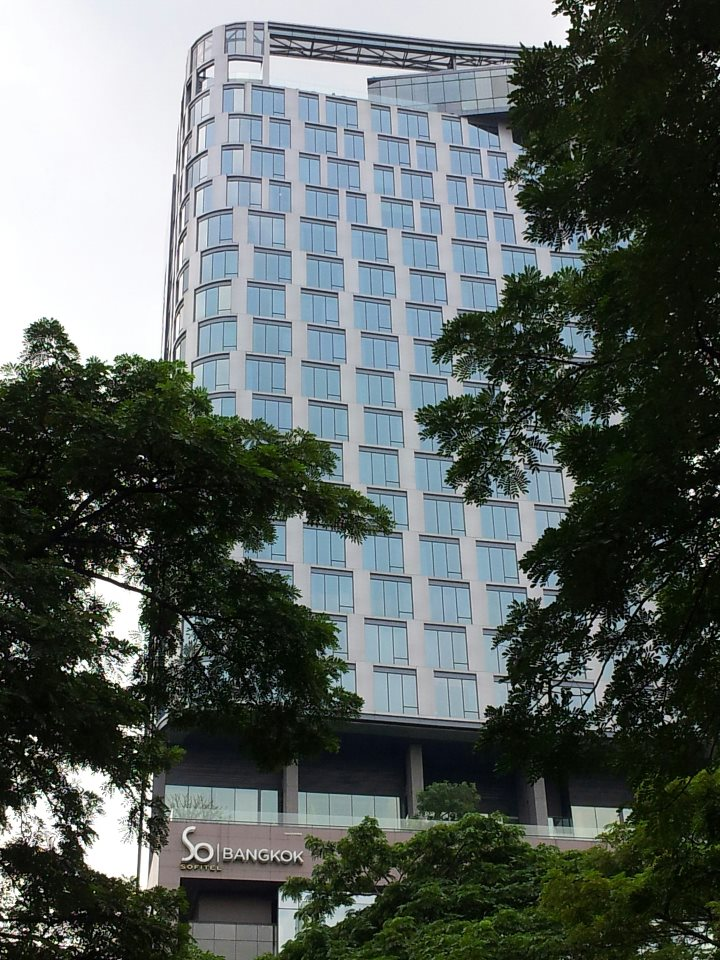 Sofitel So Bangkok, photo taken from Lumpini Park